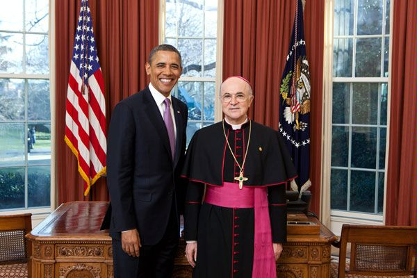 President Barack Obama receives credentials from Apostolic Nuncio Carlo Maria Vigano of the Holy See, in the Oval Office.